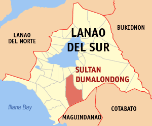 Map of the Lanao del Sur showing the location of Dumalondong